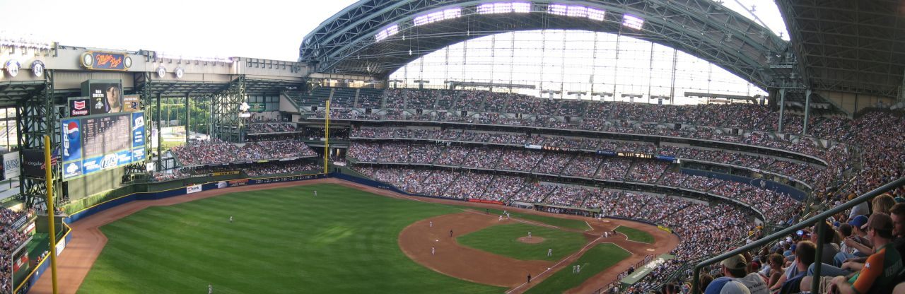 Photos taken and stitched together by myself, Jeramey Jannene on August 4th, 2005. Image can also be found at [1] on Flickr. 19:30, 19 April 2006 . . Grassferry49 . . 1280 x 416 (136,528 bytes)